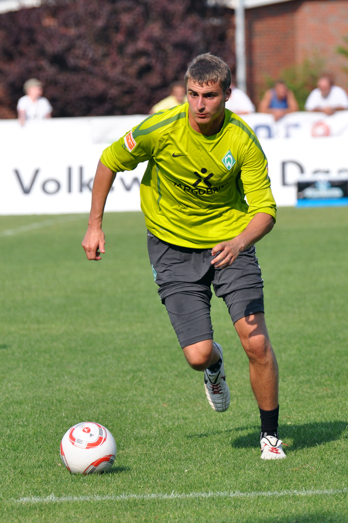 German football player Sebastian Mielitz during training of Werder Bremen.